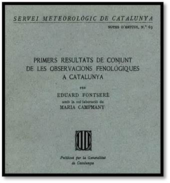 The first phenology publication of the Meteorological Service of Catalonia